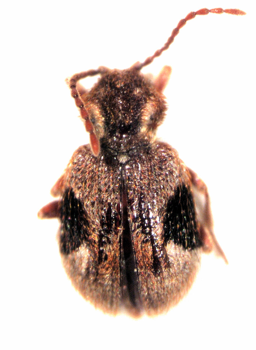 adult Ptinus plagiatus